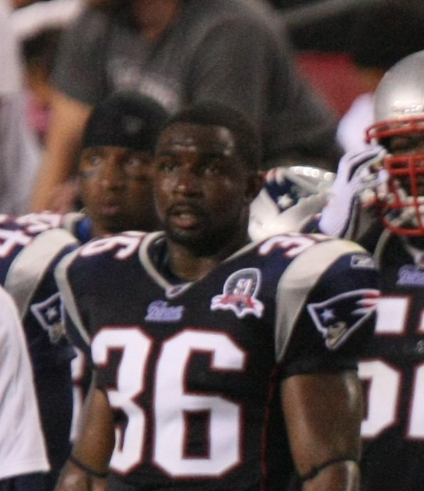 James Sanders of the New England Patriots watches the preseason game against the Washington Redskins at FedExField on August 28, 2009 in Landover, Maryland.